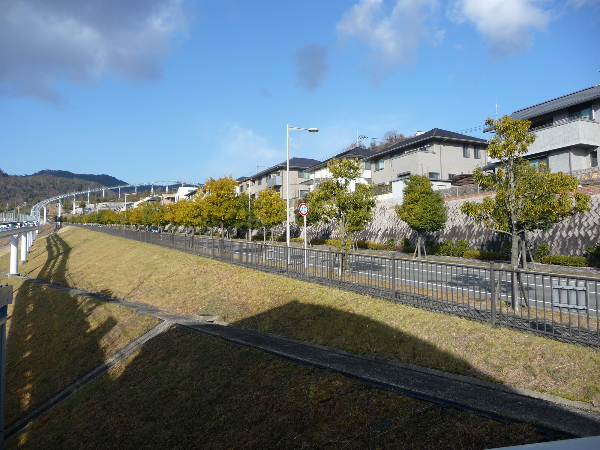 Around MIDORI-NAKAMACHI Station(Skyrail).